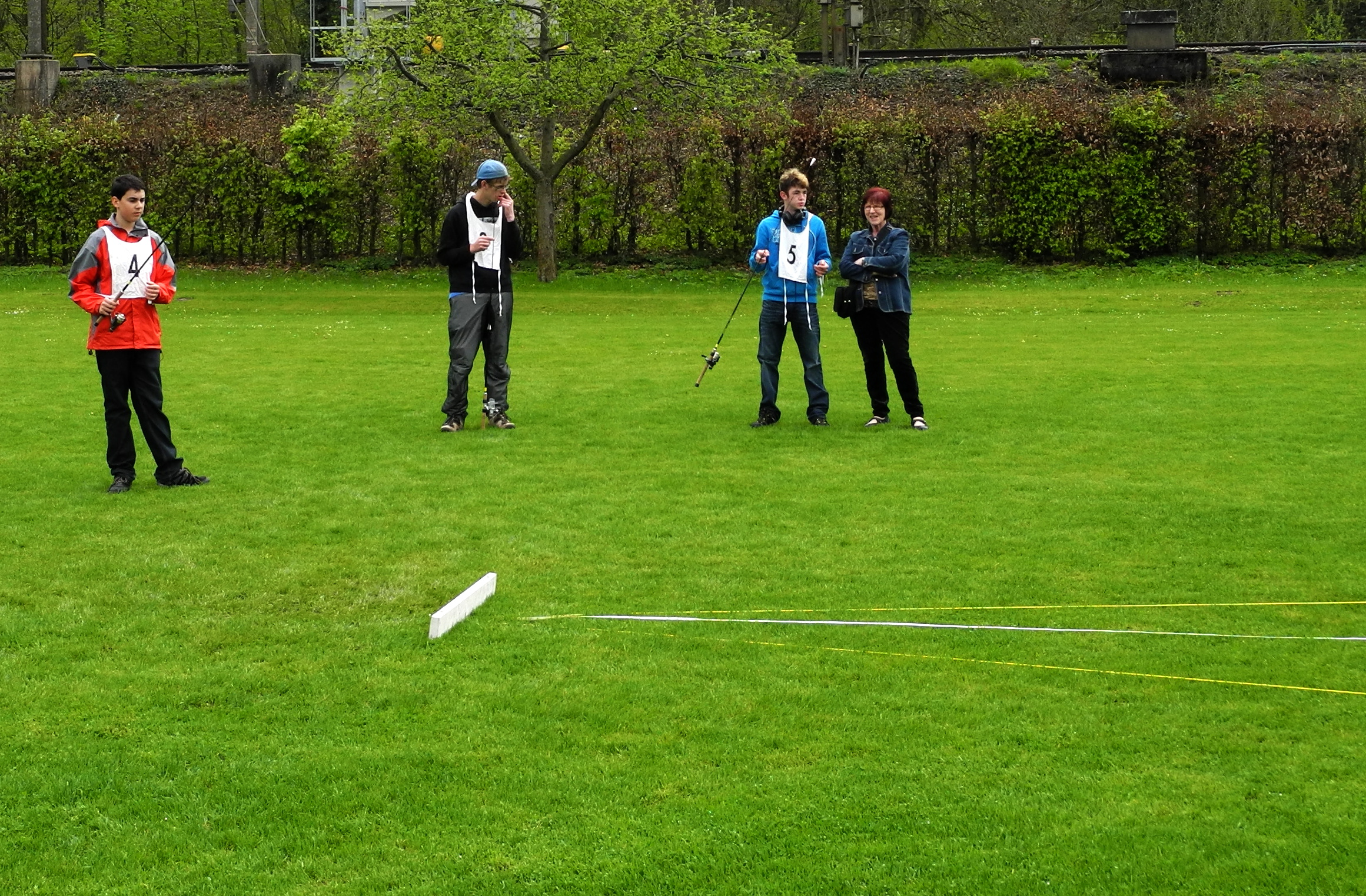 casting in zuchwil so